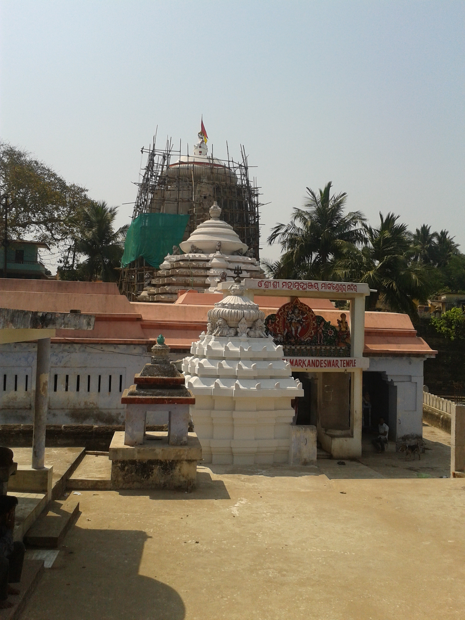 Markandeshwar Temple is dedicated to the Hindu God Shiva in the Indian city of Puri